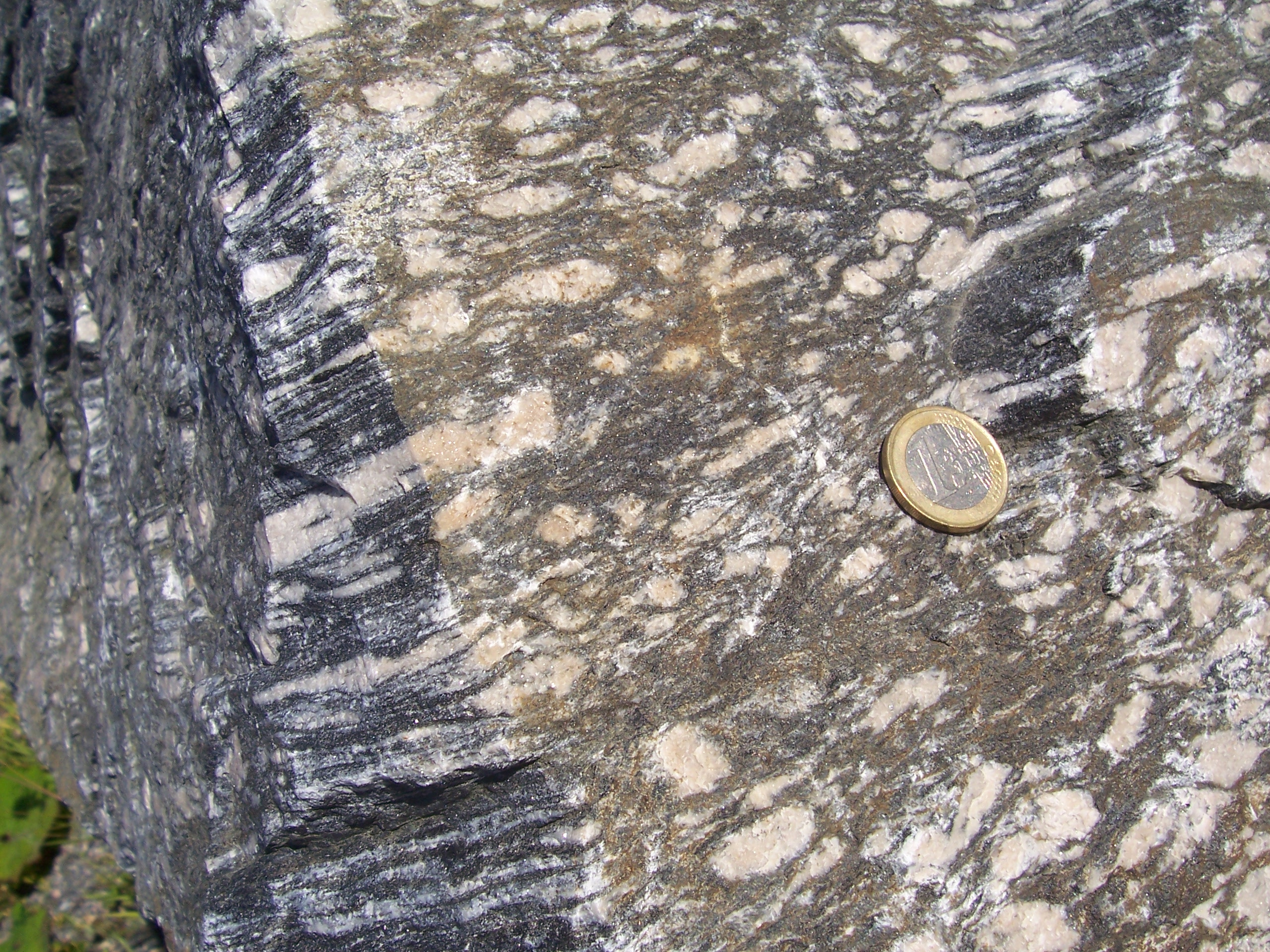 Neoproterozoic migmatitic augengneiss from the Western Gneiss Region, island of Otrøy, Møre og Romsdal, Norway. Coin of 1 euro for scale. Two cross-sections show 3D-structure: the augen that appear round on the upperside, are in fact cigar shaped